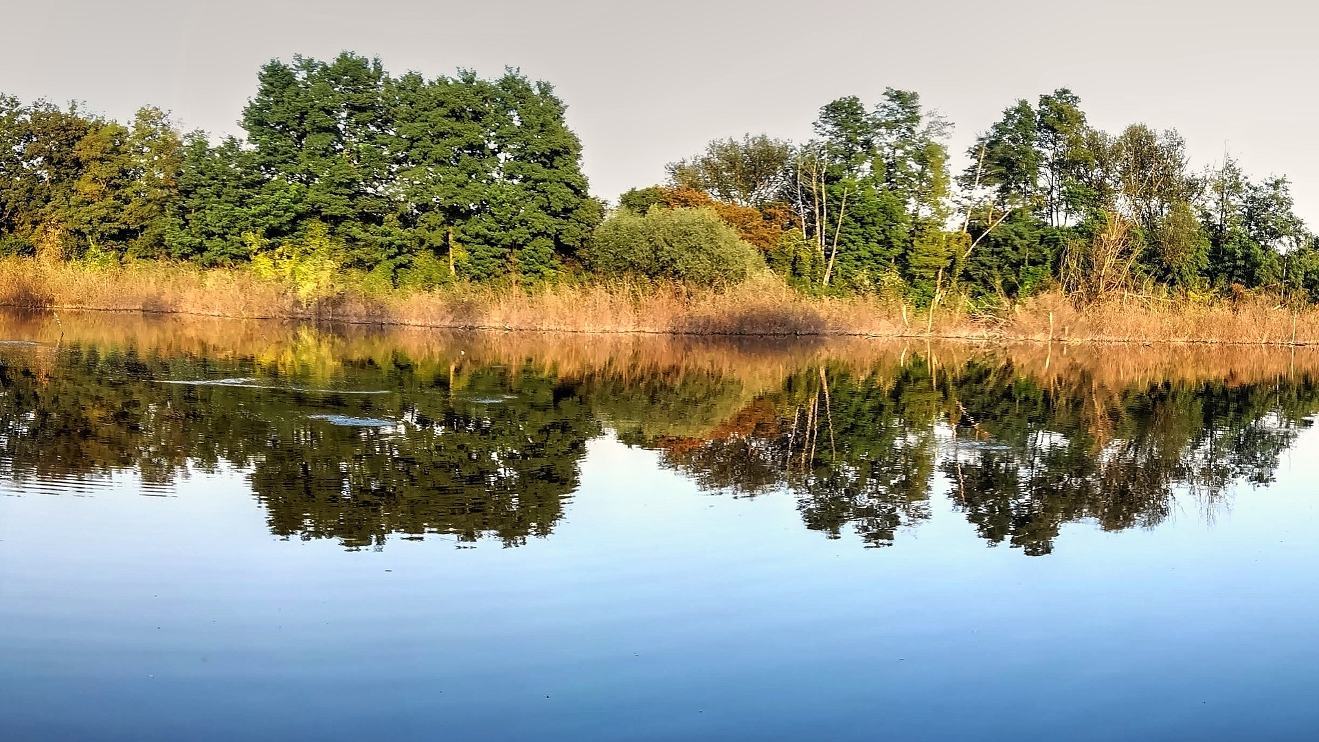 Oxbow lake Mertva Tisa (Mŕtva Tisa) between Slovakia and Ukraine, the westernmost point of Ukraine